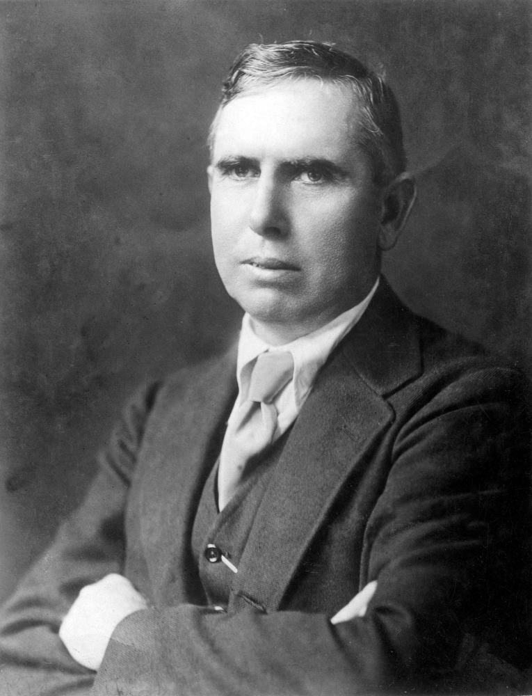 American writer Theodore Dreiser. (c1910/1915)